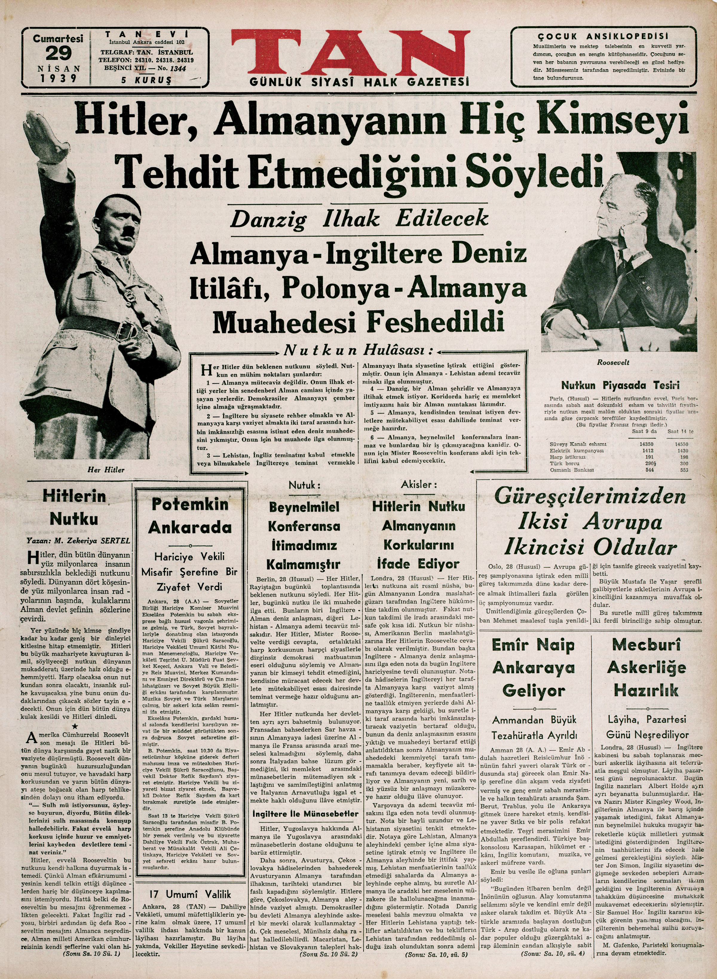 Tan (Tan Günlük Siyasi Halk Gazetesi) headline reads "Hitler says Germany threatens no one", April 29, 1939